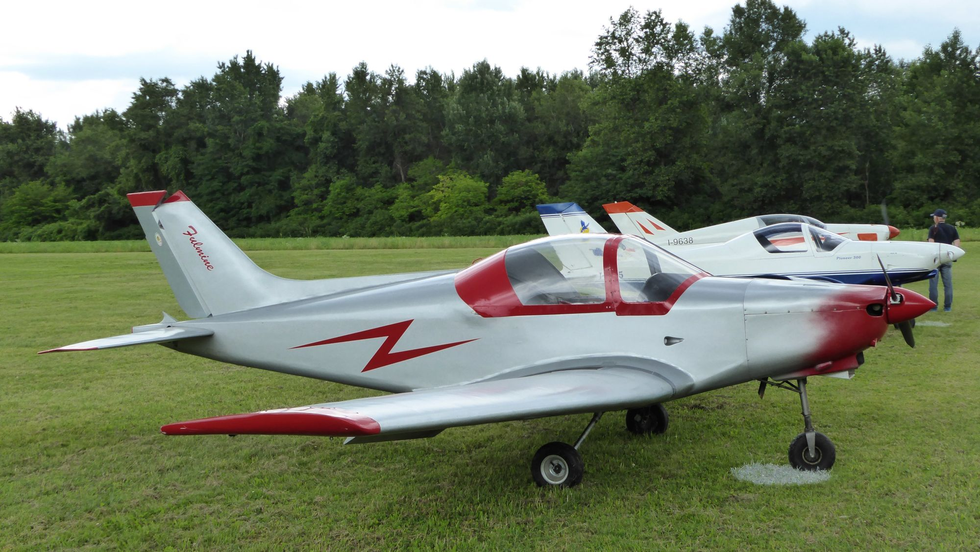 Taken at Nervesa della Battaglia, Italy